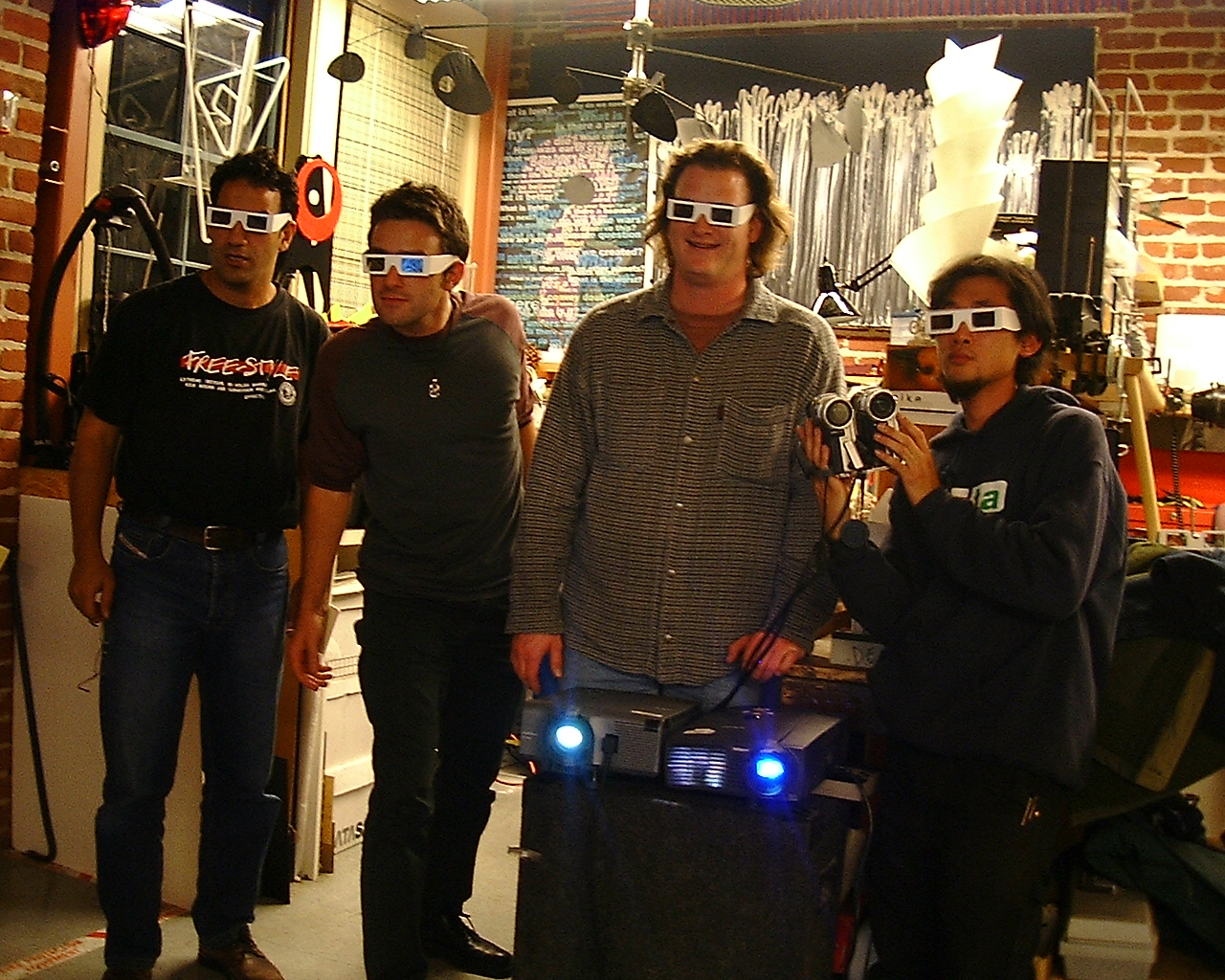 Strasser, Mike. Stanford University. November 14, 2000